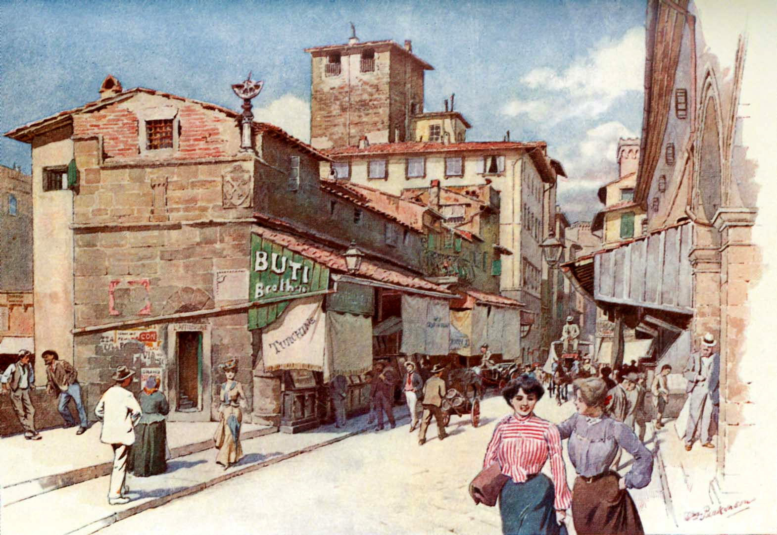 Ponte Vecchio - The Old Bridge in Florence